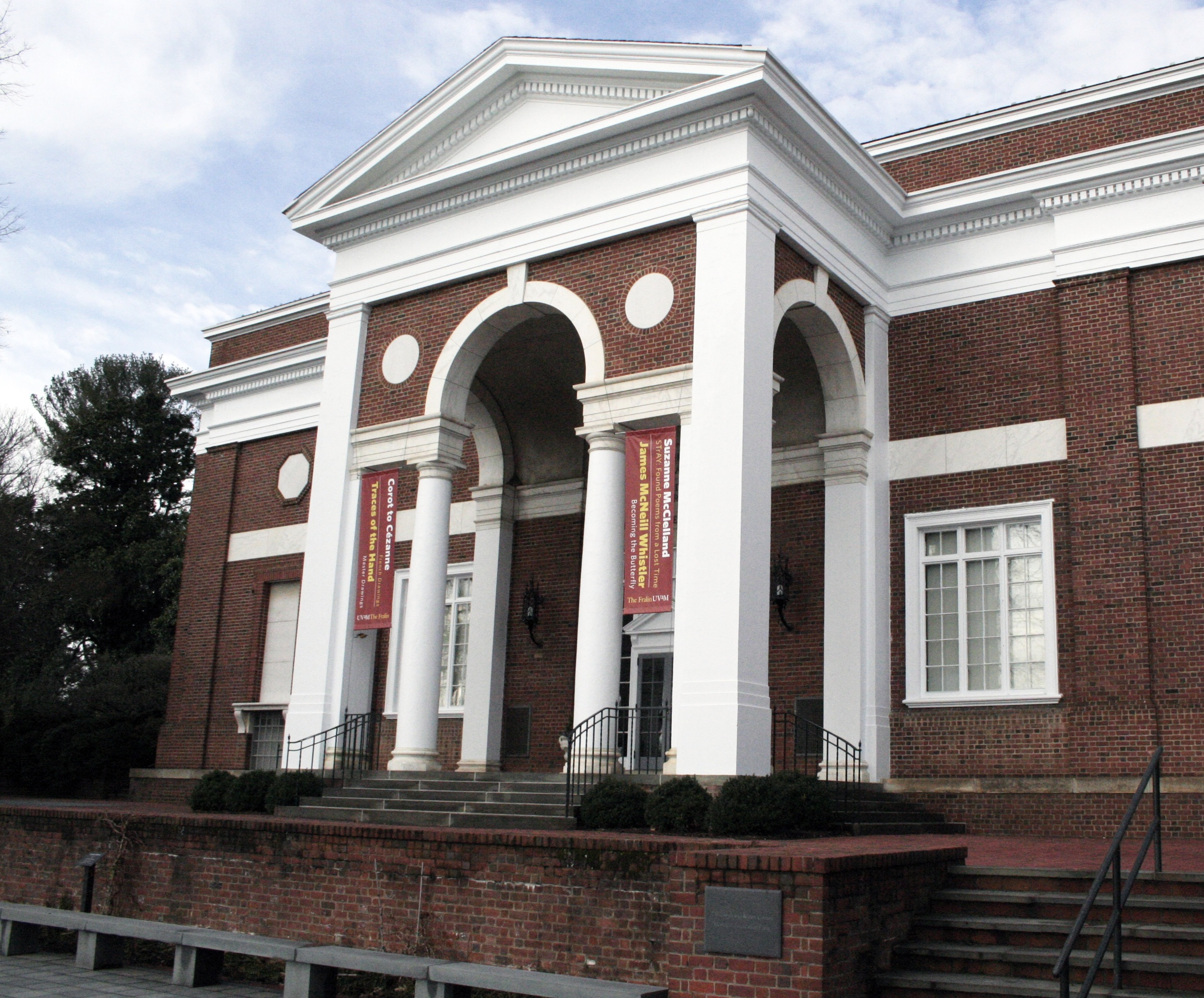 The Fralin Museum of Art located in the Bayly Building on the campus of the University of Virginia in Charlottesville, Virginia, United States.